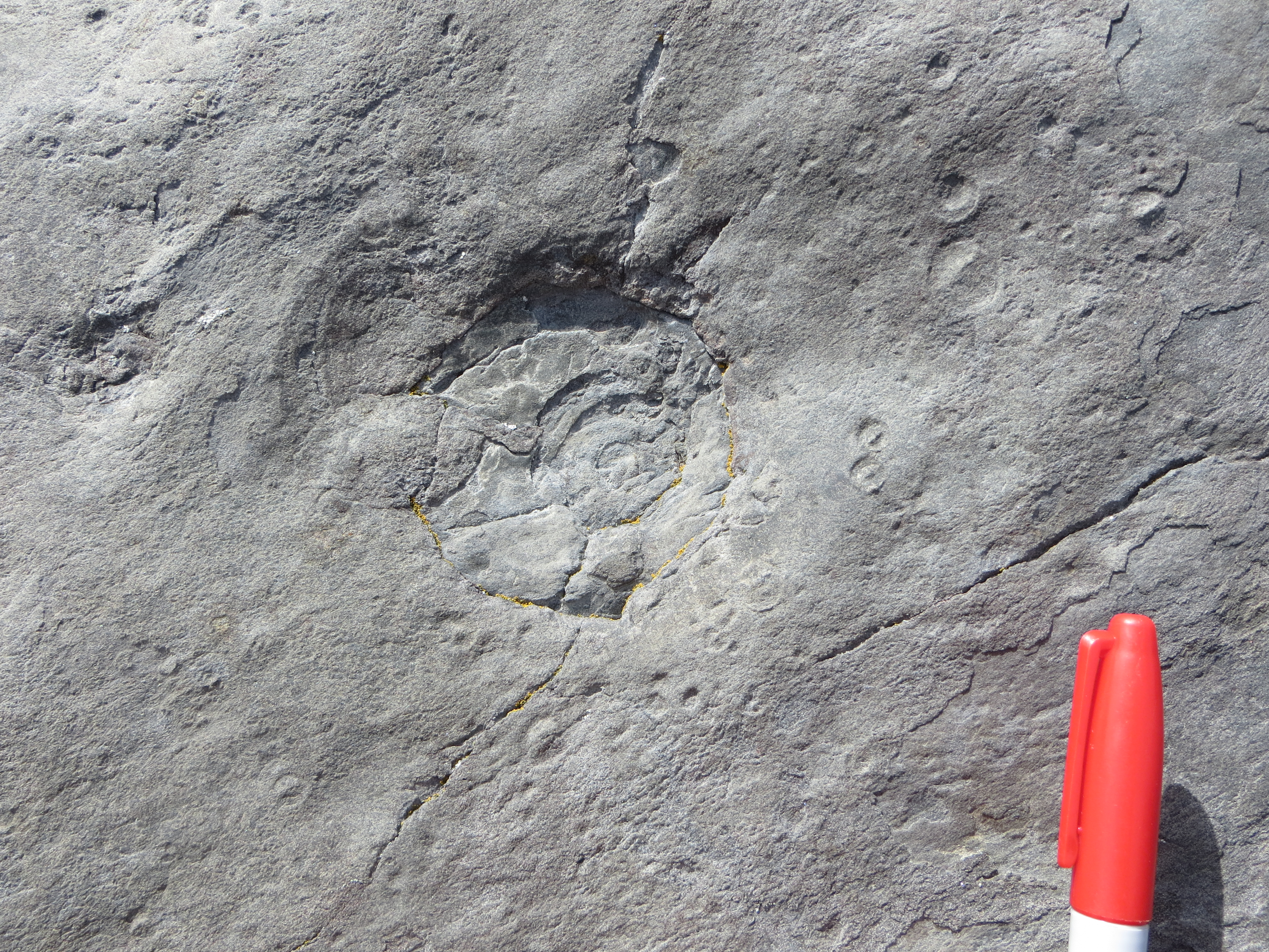 Aspidella discs on a bedding surface of the Fermeuse Formation near Ferryland, Newfoundland